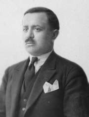 Ahmed Shukri Beg (Ahmet Şükrü Kulualp)